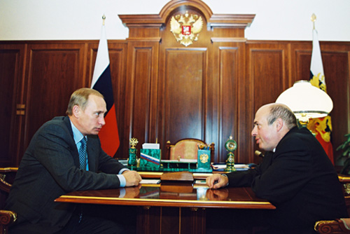 THE KREMLIN, MOSCOW. President Vladimir Putin with Knesset Member and Co-Chairman of the Russian-Israeli Commission on Trade and Economic Cooperation Natan Sharansky.